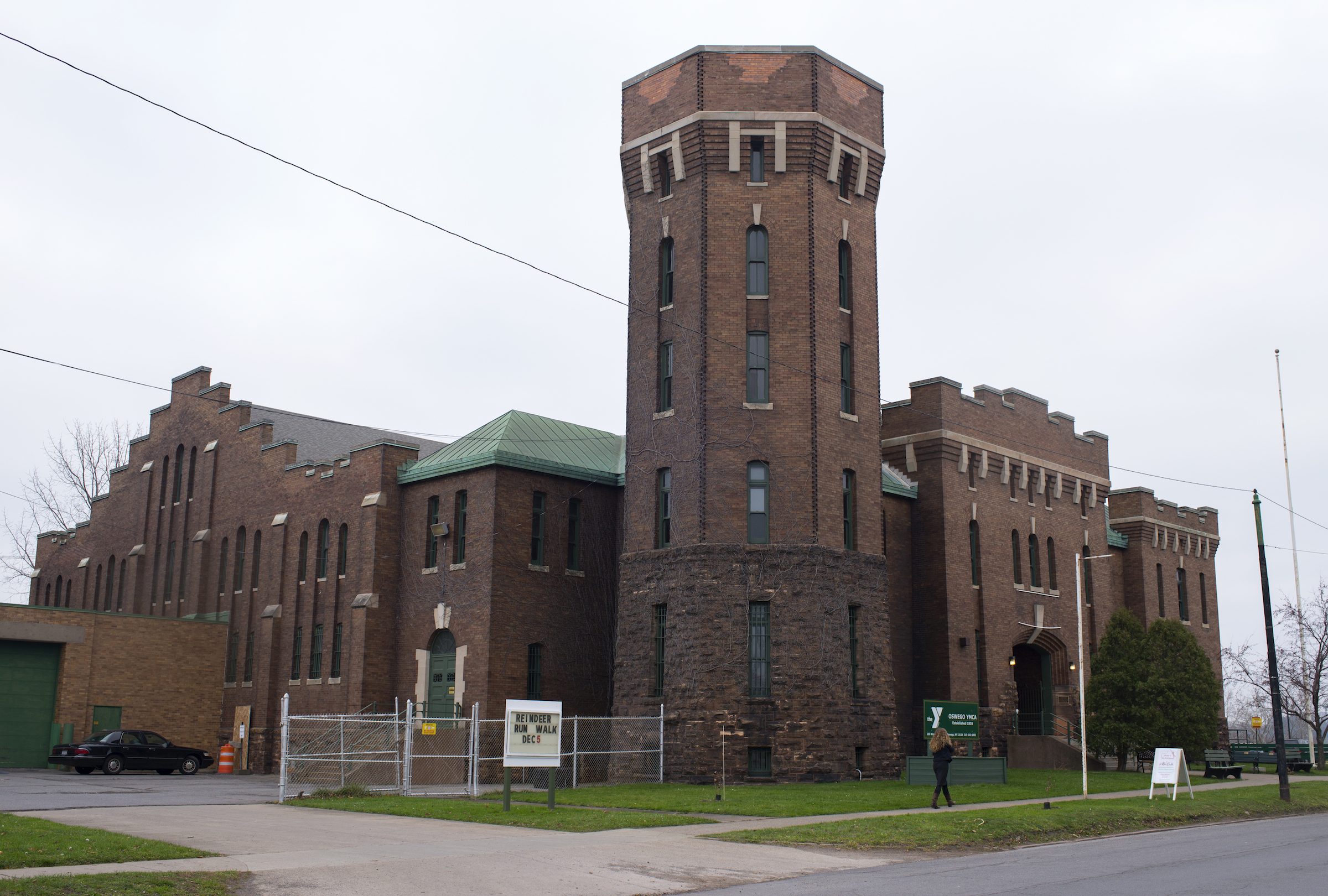 Oswego Armory at 265 W. First St. in Oswego, New York, 2015